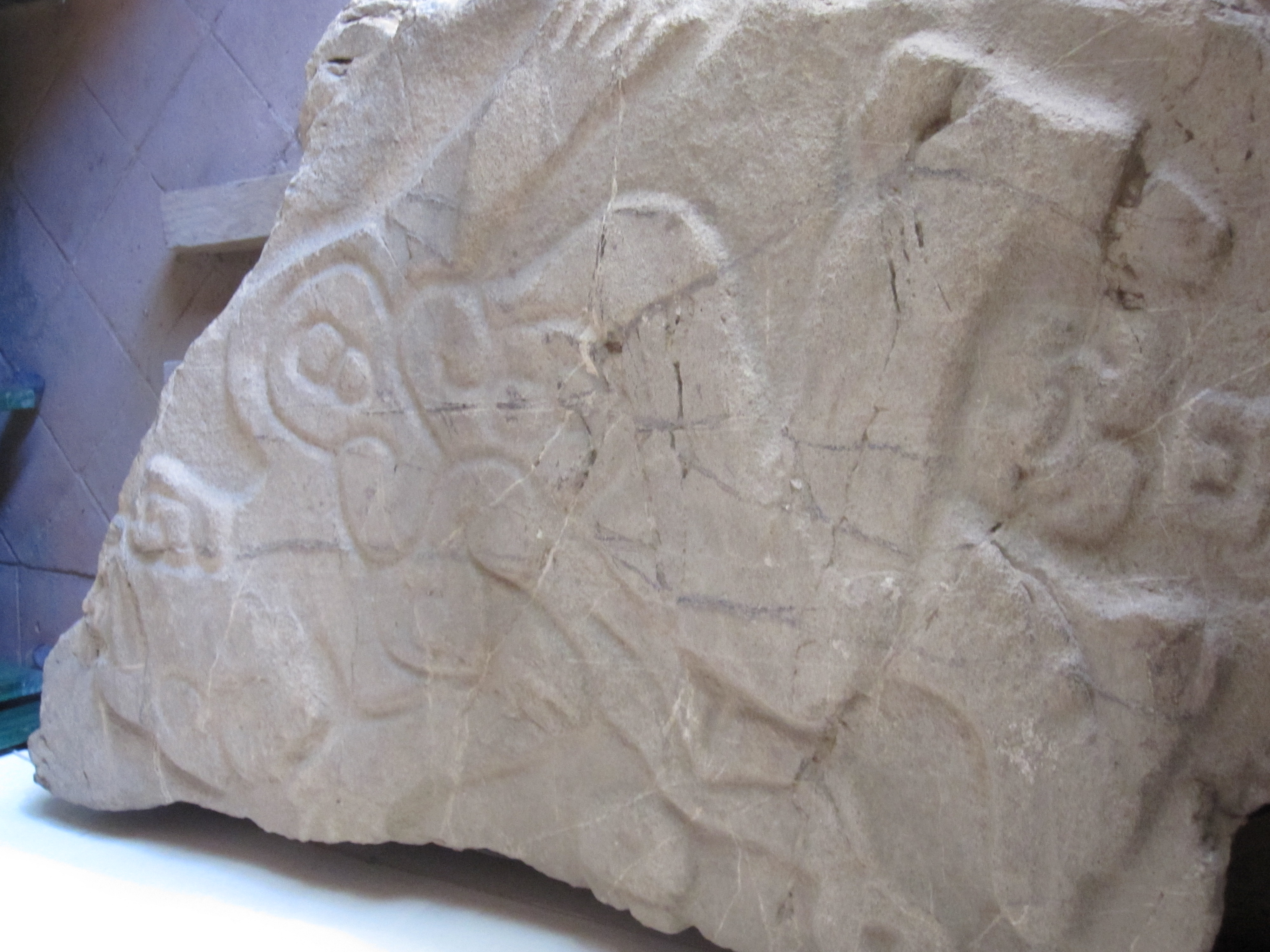 Monument three of San José Mogote, Oaxaca.